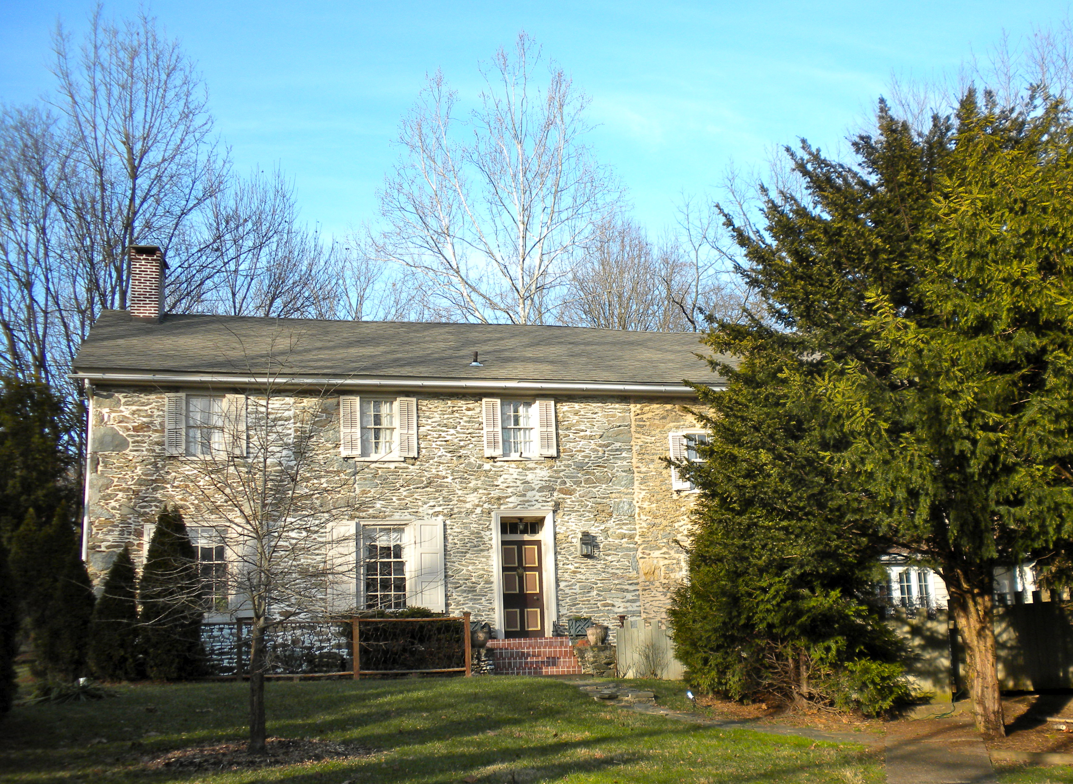 George Hoffman House on Grove Road, north of West Chester, pa. On NRHP. I donate this photo to the public domain.